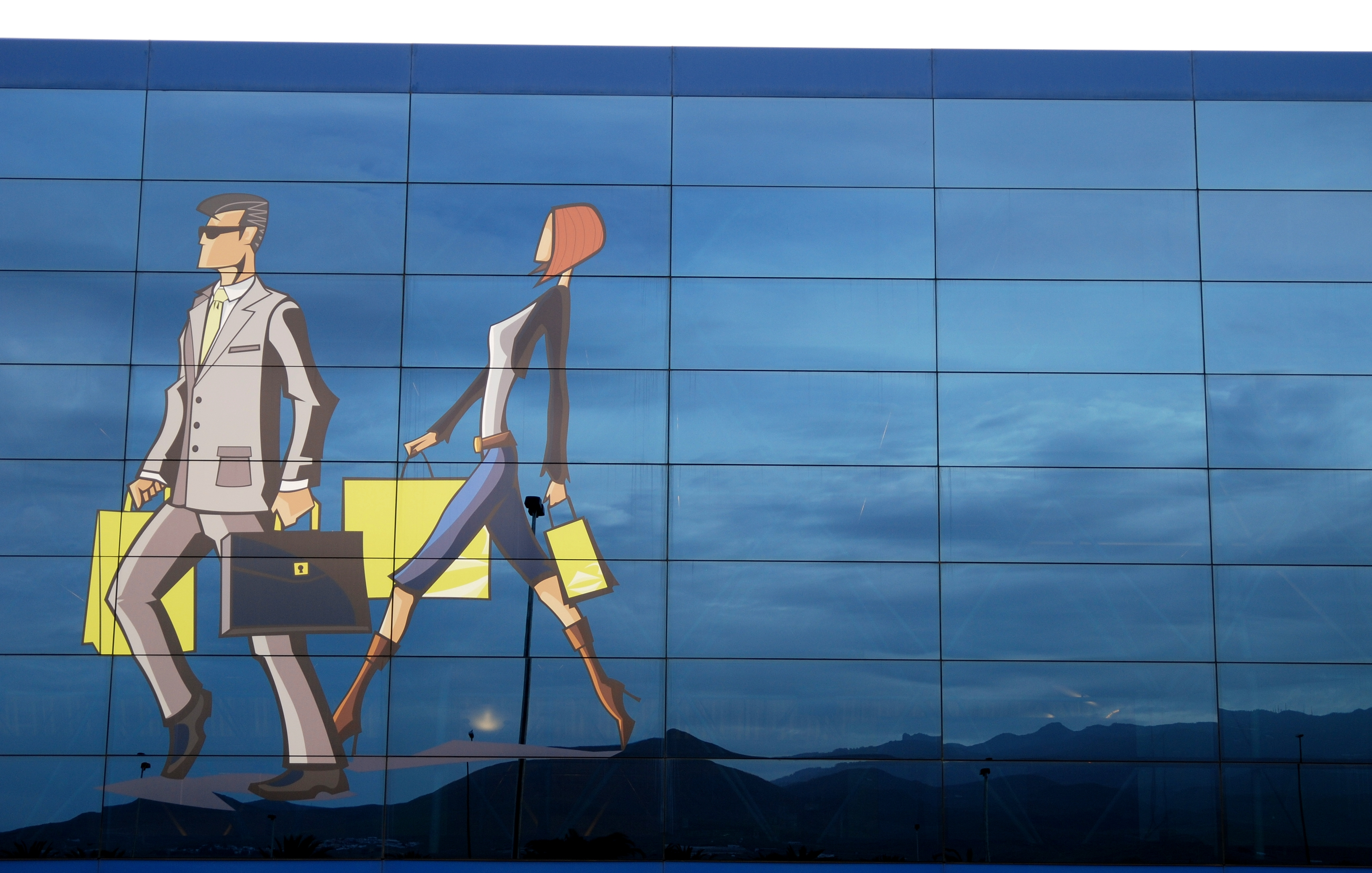 Gran Canaria Airport (LPA). Terminal Building.